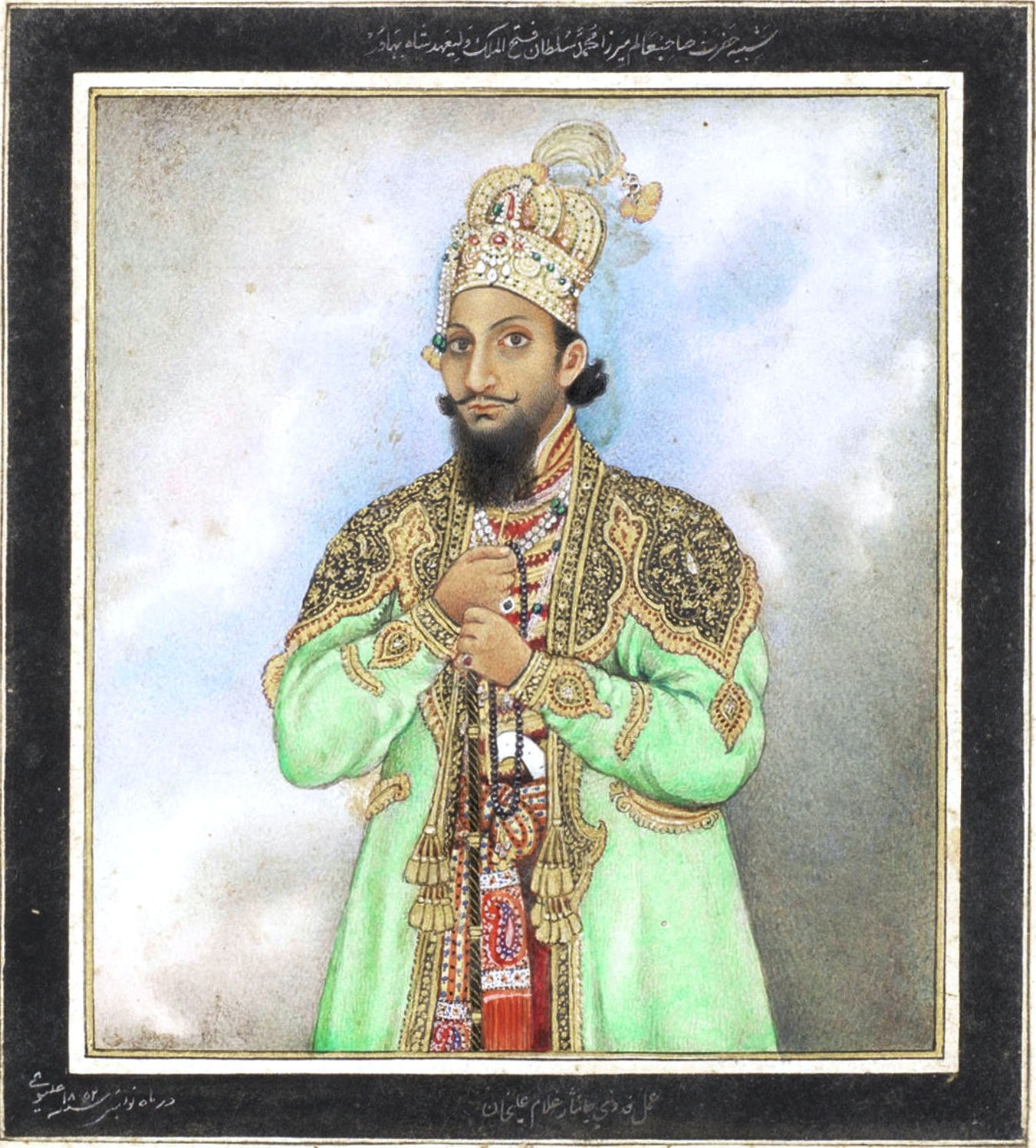 Mirza Mahomed Sooltan Sutteh ood Moolk Shah, the Heir Apparent, signed by Ghulam 'Ali Khan. A series of 31 paintings by Ghulam Ali Khan (fl. 1817-55), consisting of views of monuments in and around Delhi, and including four portraits of the last Mughal Emperor Bahadur Shah II (reg. 1837-58) and his sons. Watercolour and gold on paper, black margin rules, three title pages, three sheets of portraits, all with identifying inscriptions in English and in Persian in nasta'liq script in black ink, the portraits with further inscriptions in nasta'liq script with the date November 1852 (Christian date written in Arabic), in later mounts, loose in contemporary green leather-covered despatch box, the lid embossed in gold DELHEE 1854. Size paintings 290 x 215 mm. and slightly smaller; mounts 318 x 394 mm.; box 435 x 365 x 110 mm.